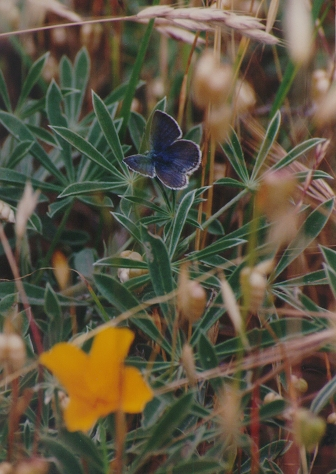 Source: Sacramento Fish and Wildlife Office (USFWS)